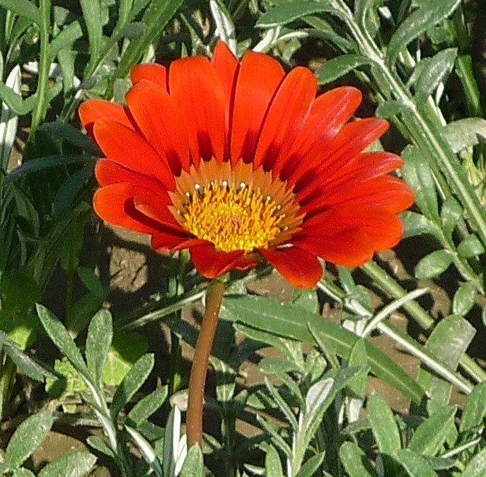 flower in the racecourse park or jilani park lahore